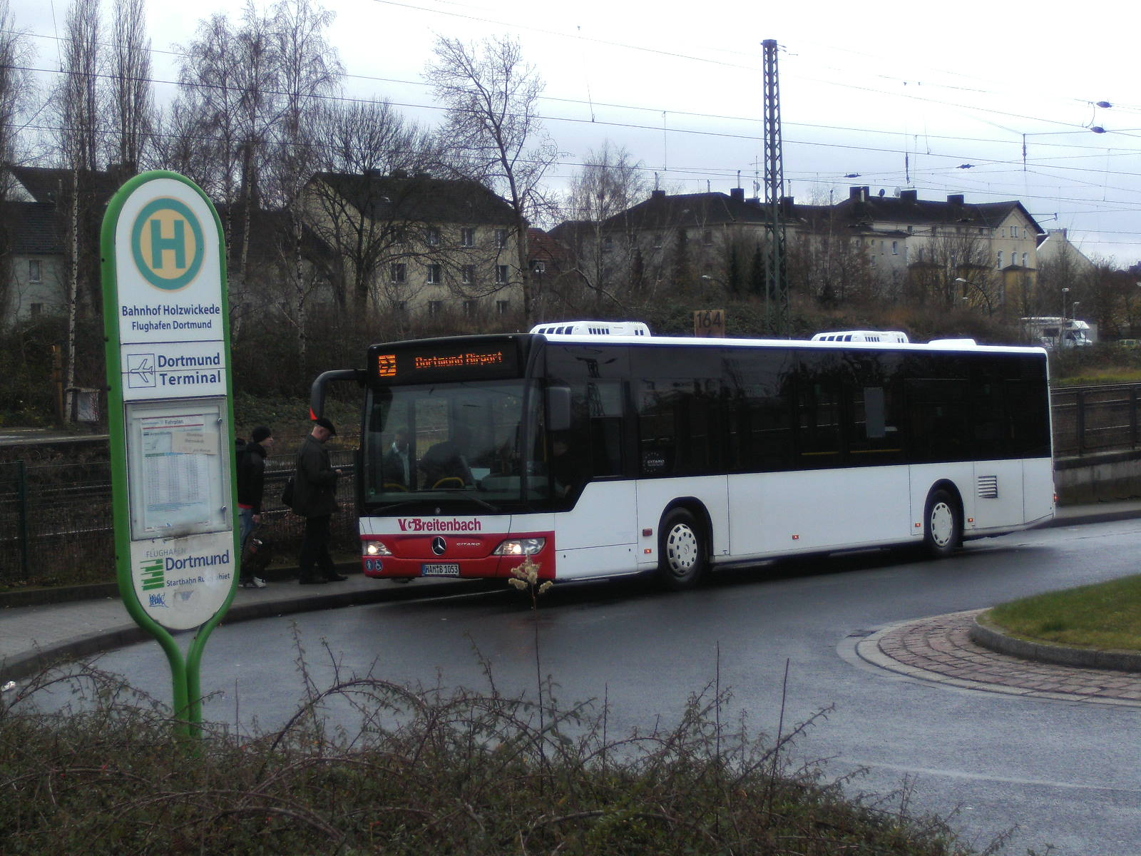 airport shuttle which connects the station Holzwickede with the Dortmund Airport northwards of Holzwickede (district Wickeder Chaussee), traffic by VGB (Verkehrsgesellschaft Breitenbach)